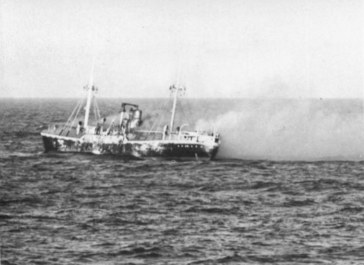 The Greek merchant ship Spyridon afire and sinking in the Mediterrranean Sea on 13 February 1968. The U.S. Navy ammunition ship USS Suribachi (AE-21) received a SOS-call at 0916 hrs and arrived on scene at 1555 hrs. Three Greek merchant ships and a Soviet Kashin-class guided missle destroyer also responded to the call. The crew was rescued by the Greek ships.